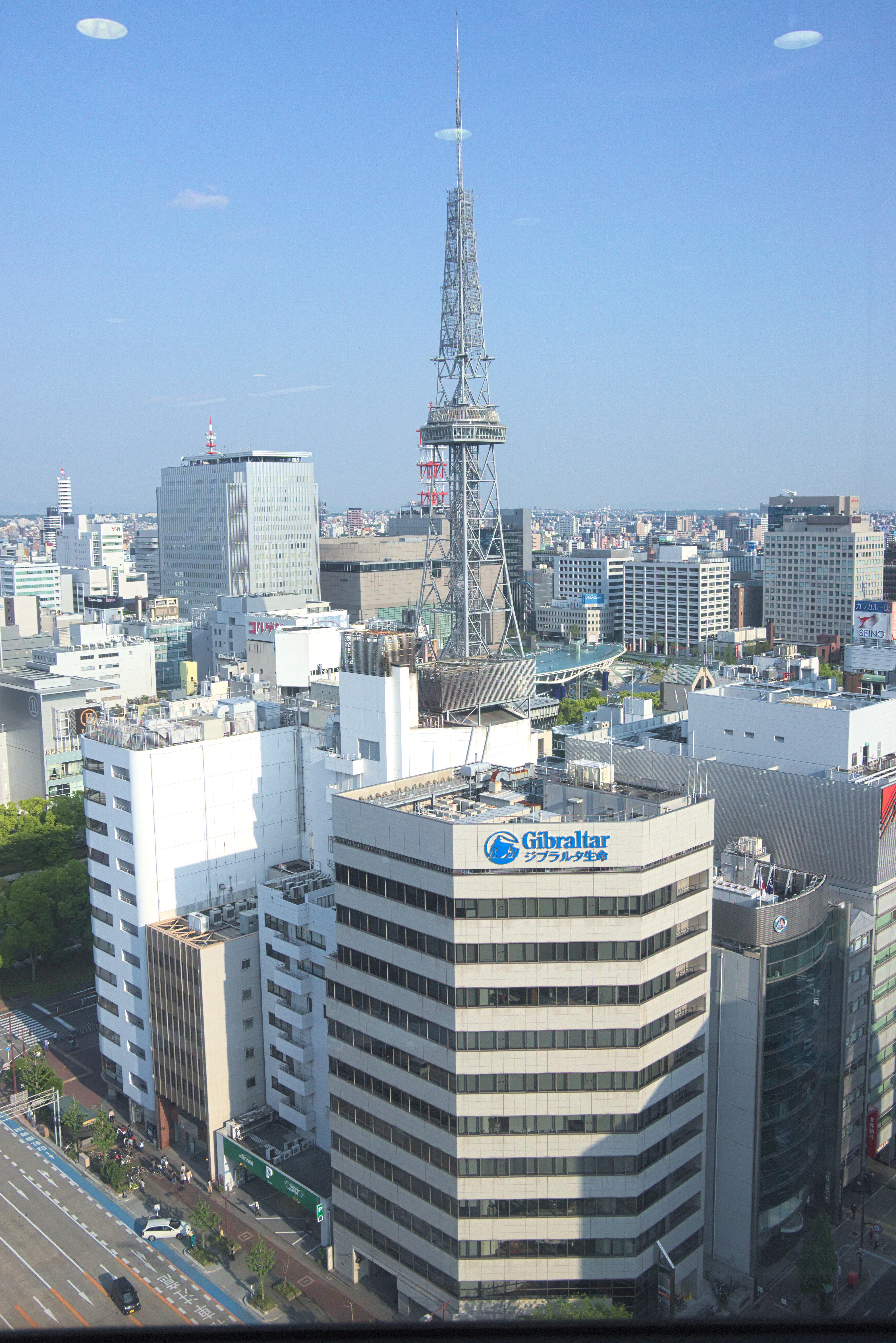 Nagoya, Sakae. TV tower.